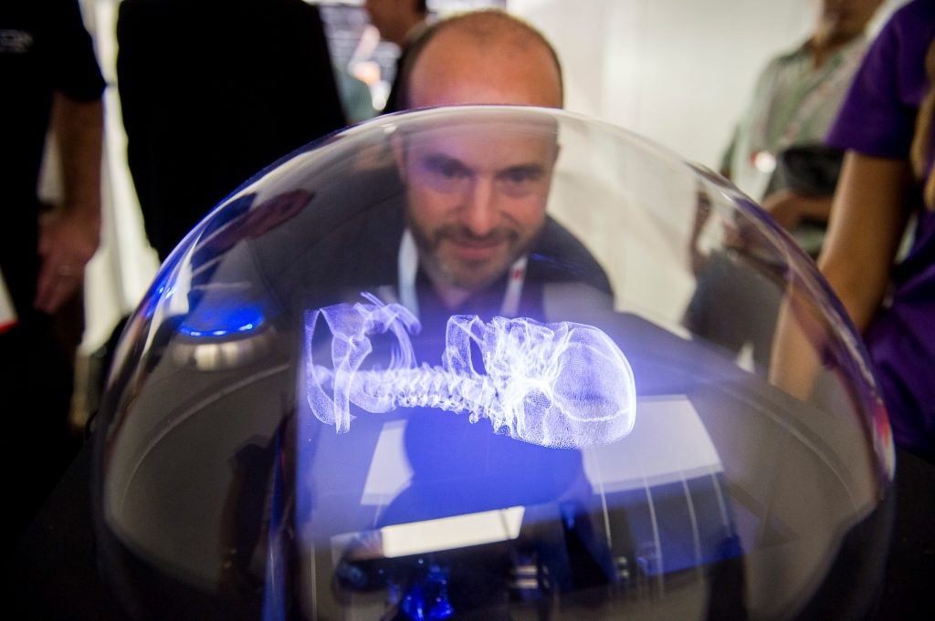 The VX1 can natively load and display medical data in the DICOM or STL formats. Using DICOM, the user is able to parse the data using density segmentation to interactively parse through the dataset in true 3D.